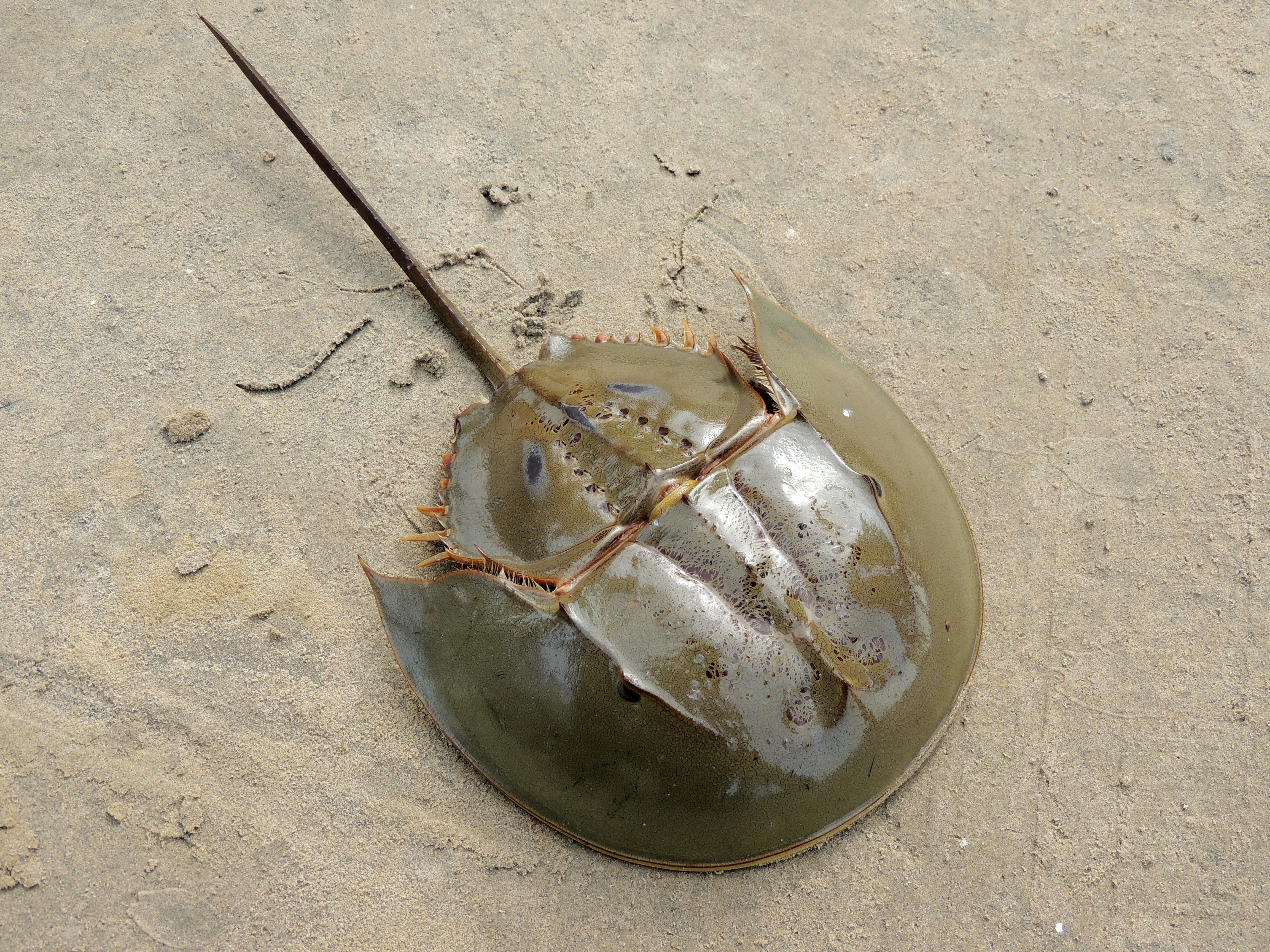 Taken at West Bengal-Odisha Coastal region.It's basically deep sea bed dwelling species.But it's carried by local fisher man to the coast by mistake within their fishing net.It was alive specimen when shooted.